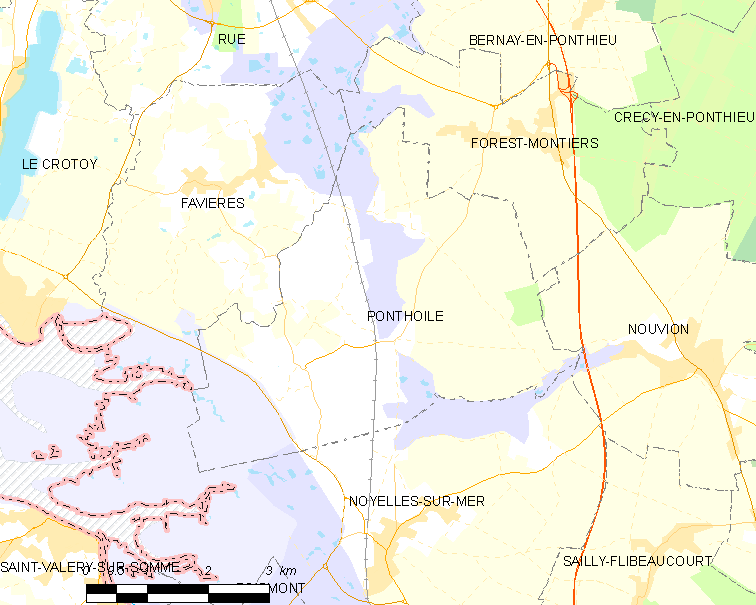 Map of French municipality Ponthoile